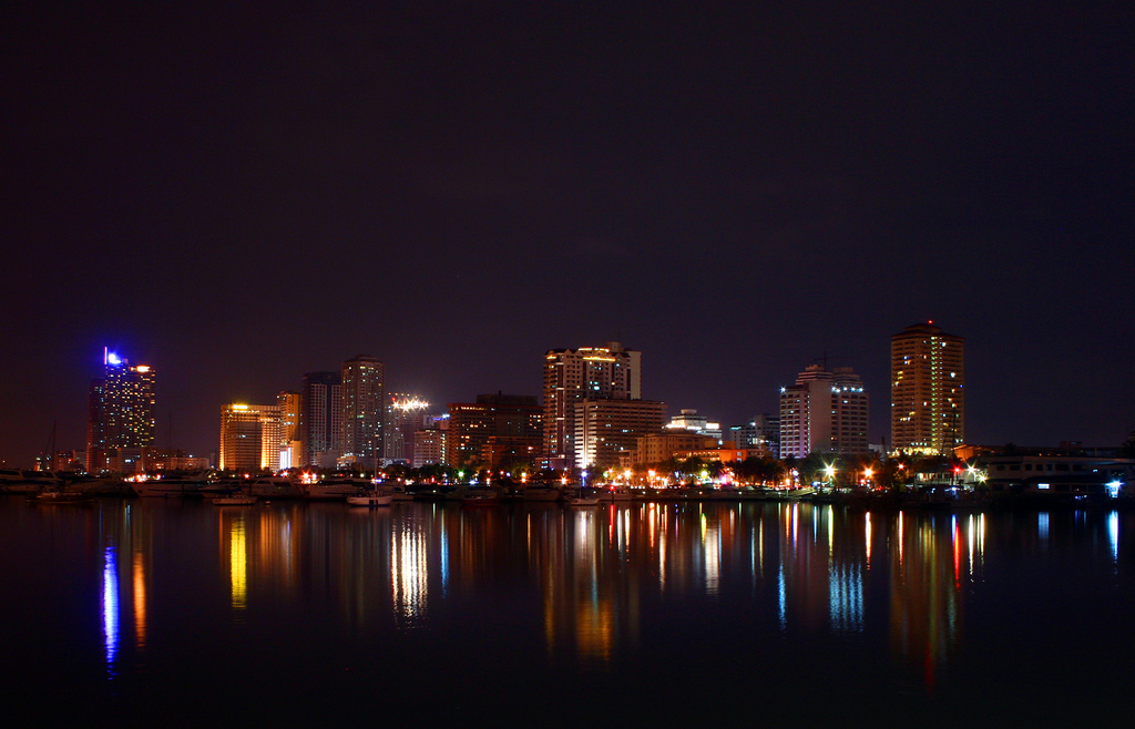 photo taken on a rainy night at harbor square after our walk the talk eb.